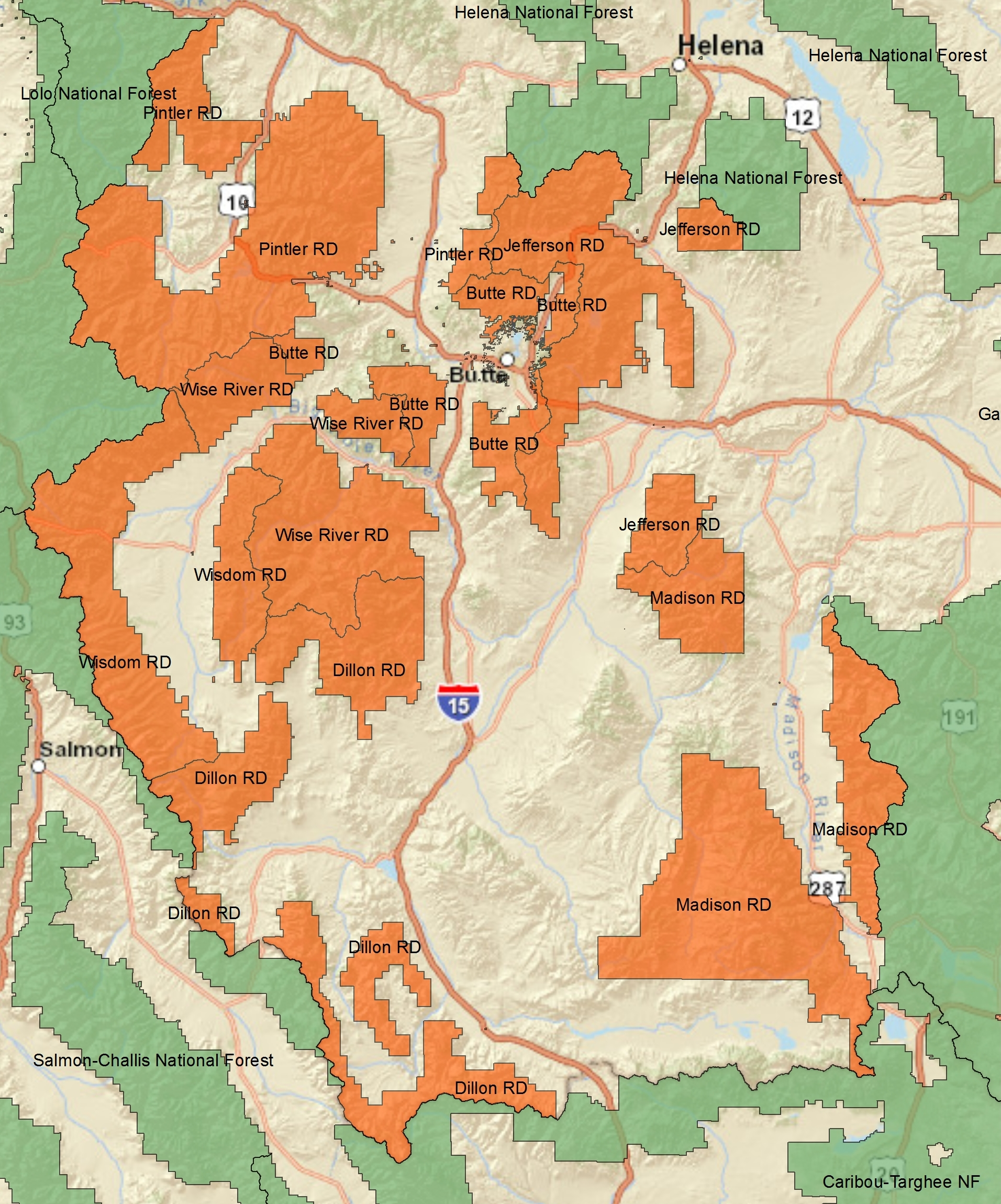 A map of Beaverhead-Deerlodge National Forest in Montana. The Butte, Dillon, Jefferson, Madison, Pintler, Wisdom, and Wise River Ranger Districts of the forest are in orange. Surrounding national forests, including Caribou-Targhee, Helena, Lolo, and Salmon-Challis are in green. This map was made using ARCMAP 10.1, and all data are in the public domain. Forest Service boundary data are from the US Forest Service FSGeodata Clearinghouse